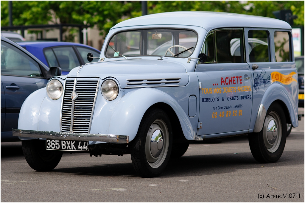 Spotted in Nantes France